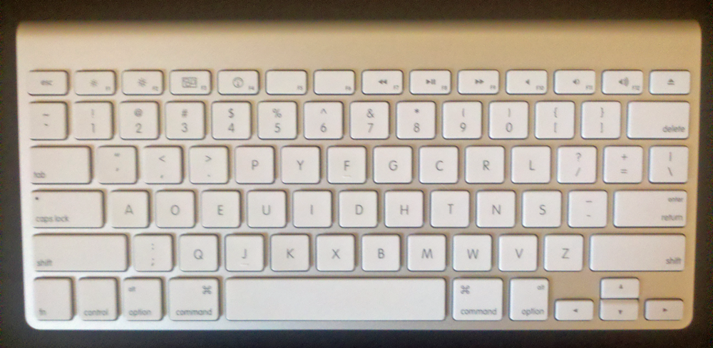 This image depicts the English - United States version of the 2010 Apple Wireless Keyboard rearranged in the simplified Dvorak layout.